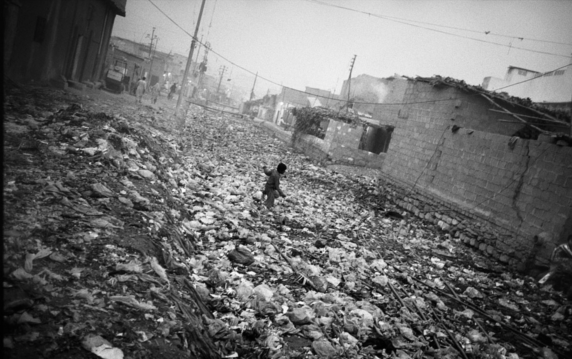 Young boys run across the main open sewage drain that is covered by a thick layer of household waste strong enough to withstand the weight of their parents in Karachi's Machar Colony, Pakistan on November 3, 2009.